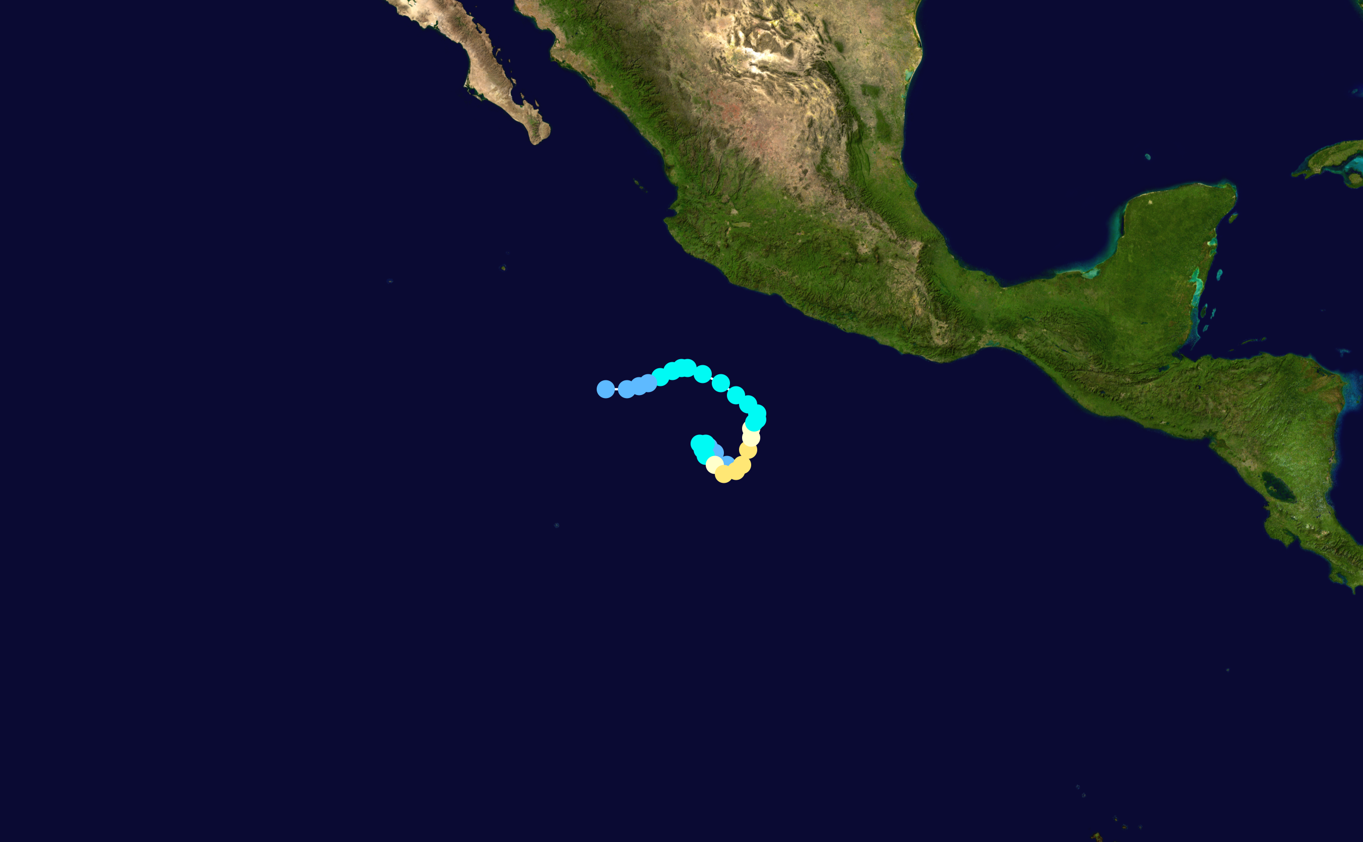 Track map of Hurricane Sergio of the 2006 Pacific hurricane season. The points show the location of the storm at 6-hour intervals. The colour represents the storm's maximum sustained wind speeds as classified in the Saffir–Simpson scale (see below), and the shape of the data points represent the nature of the storm, according to the legend below. Saffir–Simpson scale Tropical depression≤38 mph≤62 km/h Category 3111–129 mph178–208 km/h Tropical storm39–73 mph63–118 km/h Category 4130–156 mph209–251 km/h Category 174–95 mph119–153 km/h Category 5≥157 mph≥252 km/h Category 296–110 mph154–177 km/h Unknown Storm type Tropical cyclone Subtropical cyclone Extratropical cyclone / Remnant low / Tropical disturbance / Monsoon depression